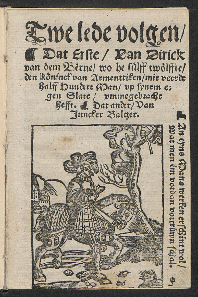 Title page of Ermenrichs Tod. Staatsblibiothek Berlin Yf 8061 R.